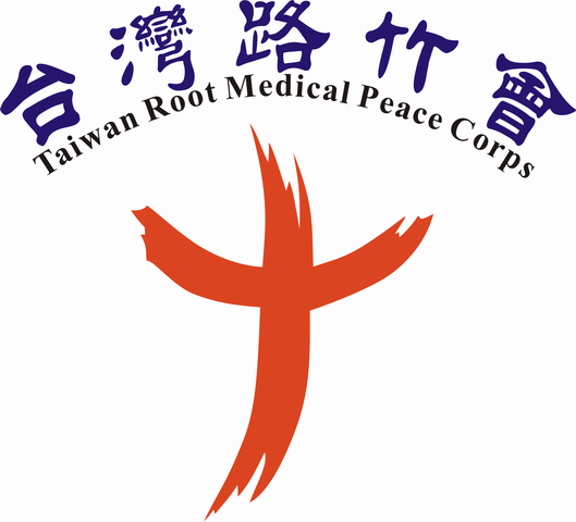 The mark of Taiwan Root Medical Peace Corps (TRMPC)